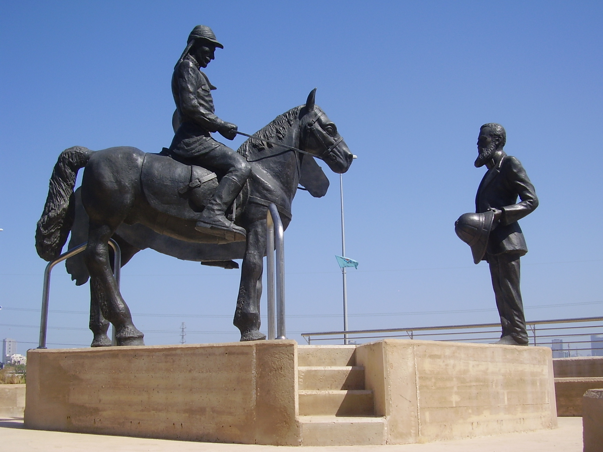 "The meeting between Herzl and Kaiser wilhelm